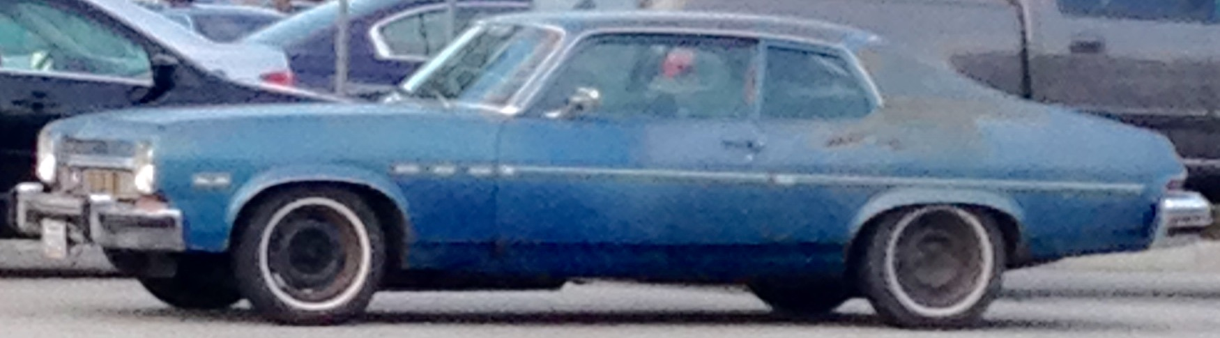 Somehow ran into this beat-up rusty old car at a Vons supermarket parking lot. 1974 Buick Apollo coupe